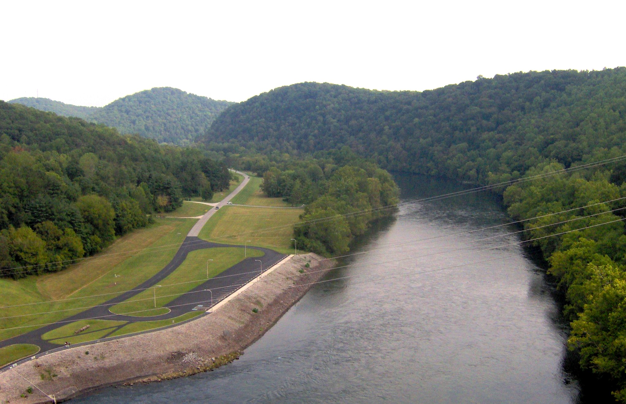 The Clinch River, looking south from Norris Dam in Anderson County, Tennessee, in the southeastern United States.